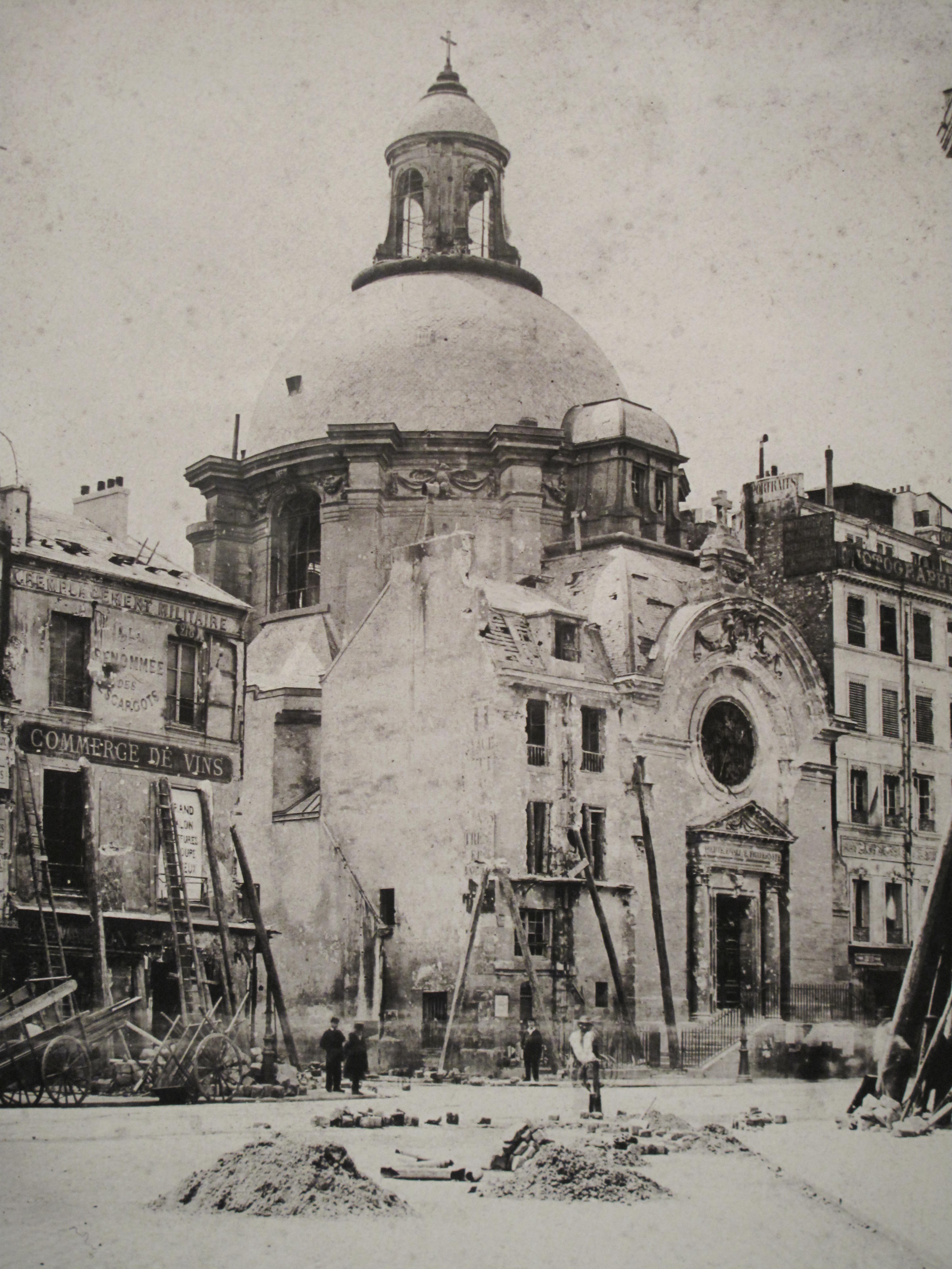 The rue Saint-Antoine and the temple du Maris after the fights and the fires of the Paris Commune, Paris 4th arr.